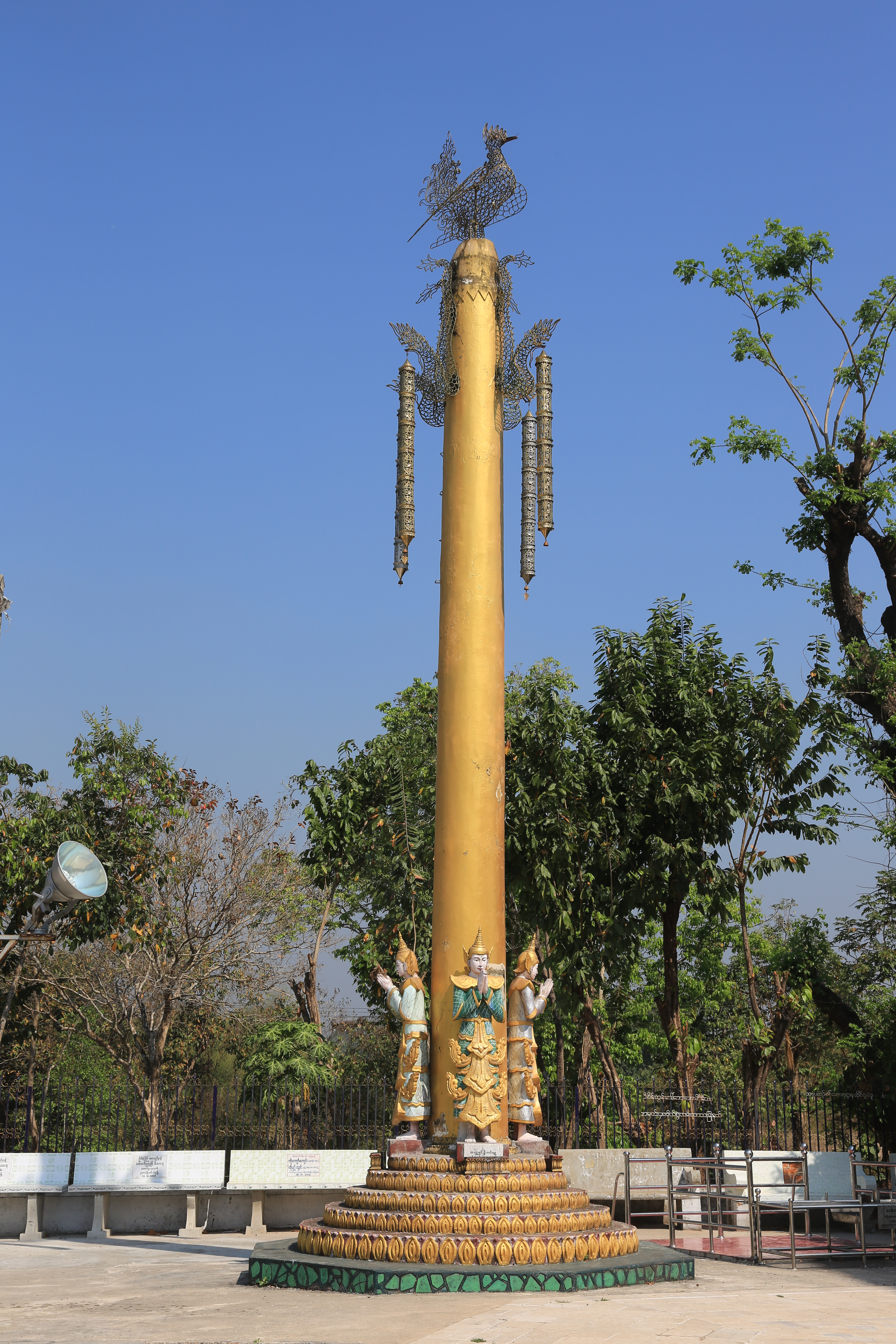 From the temple Kyaik Pun Paya in Bago, Myanmar